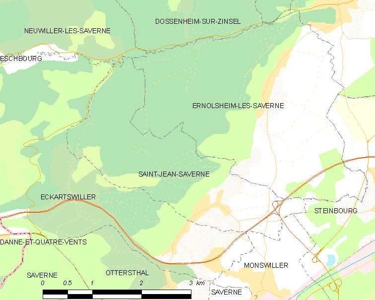 Map of French municipality